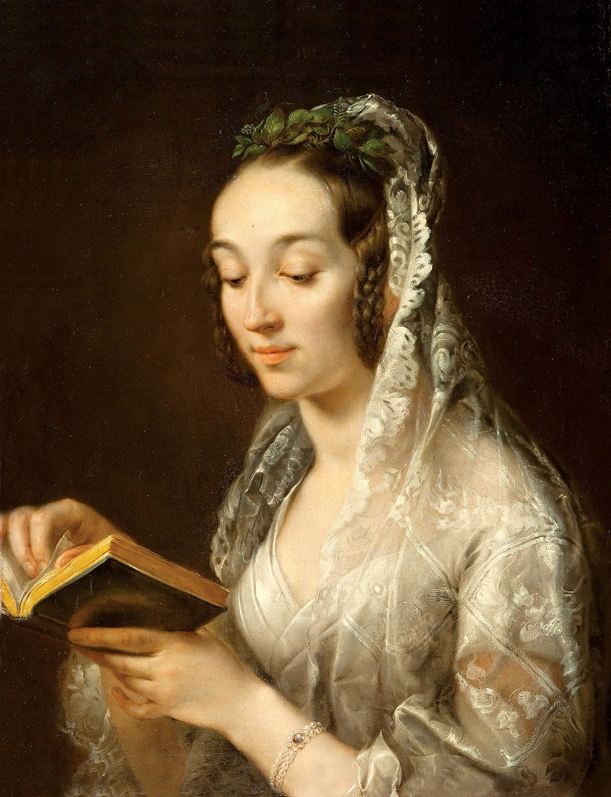 Portrait of Artist's Wife in a Wedding Dress